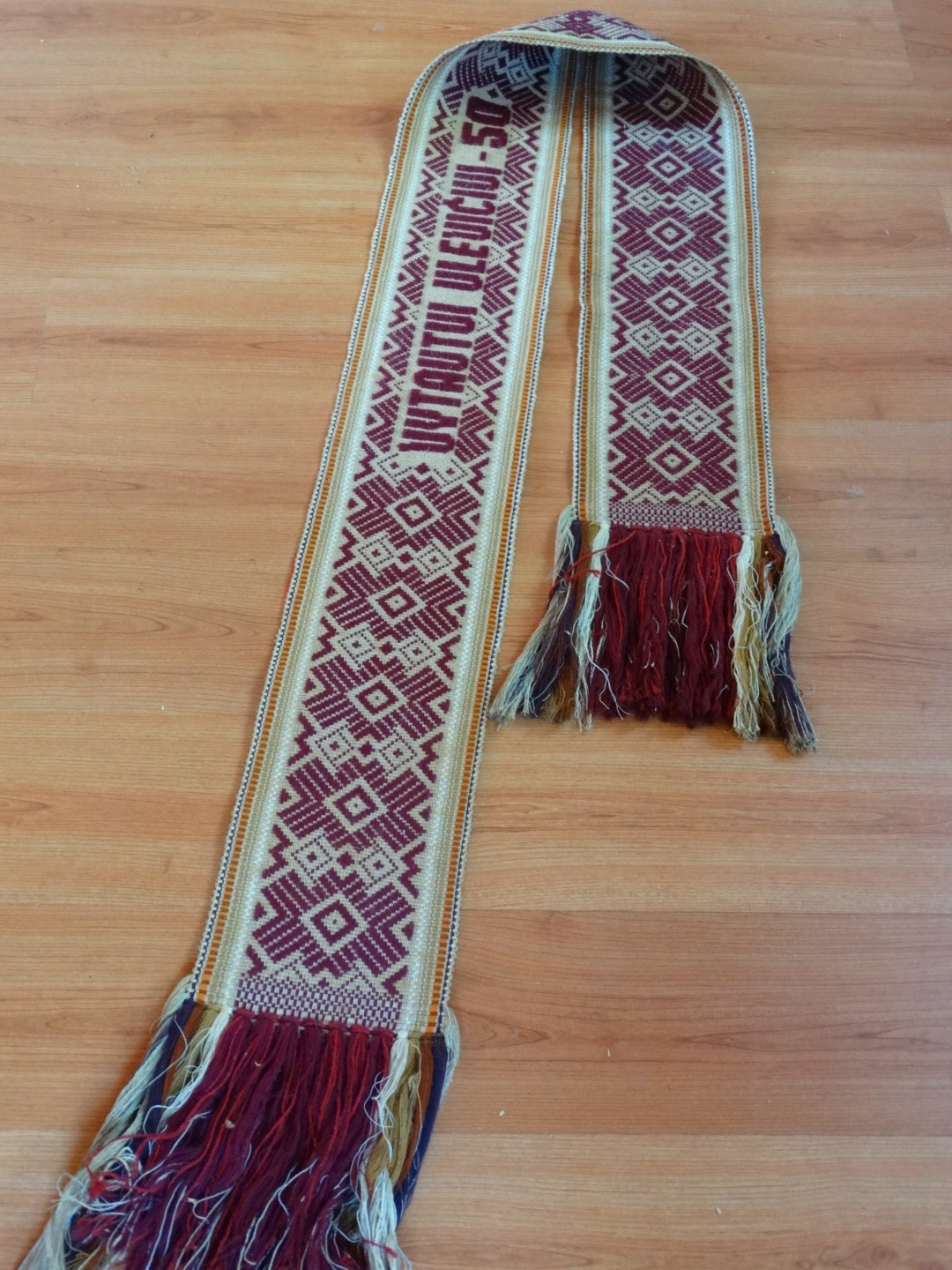 National ribbon, Lithuania